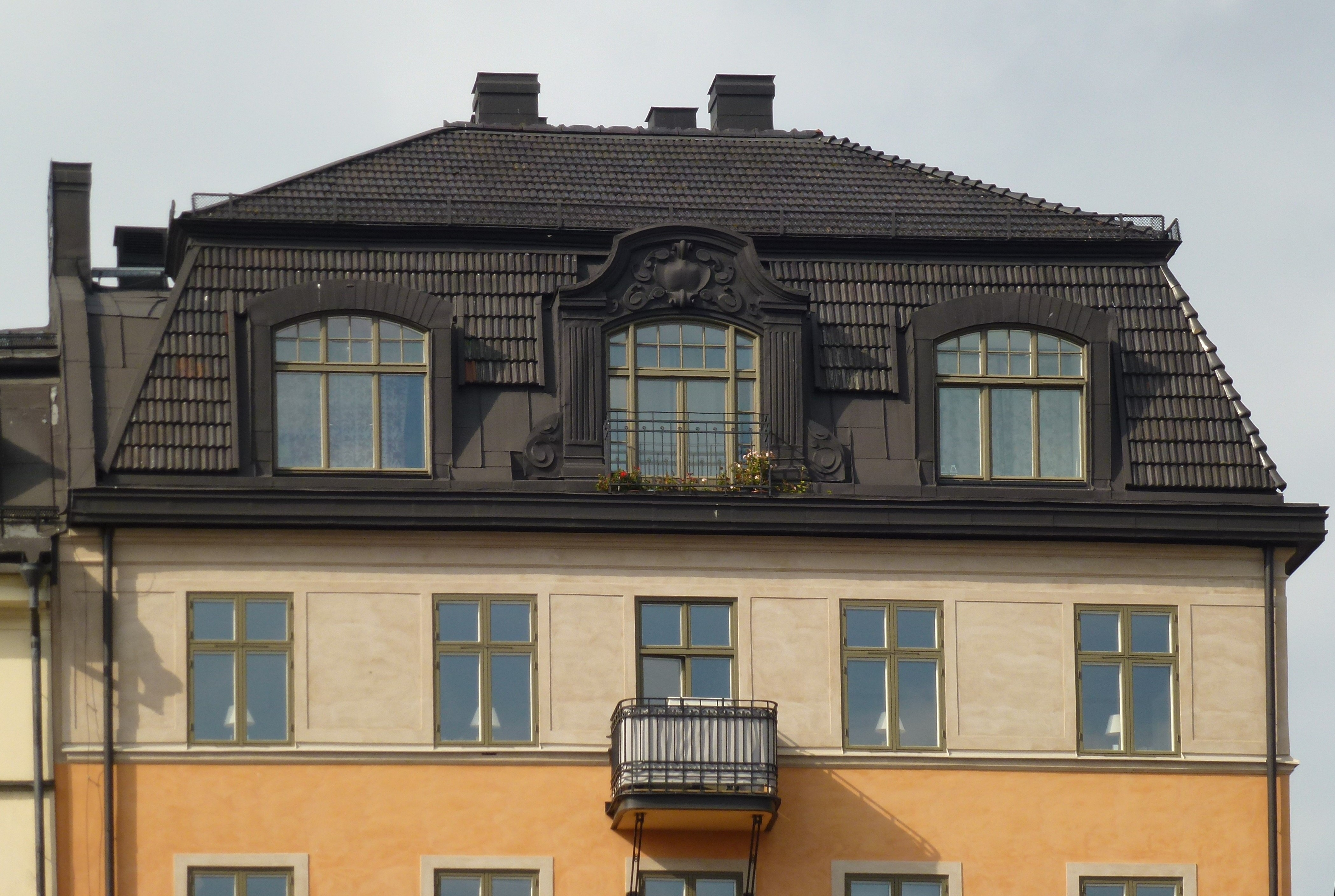 Johan Skyttes hus, takvåningen